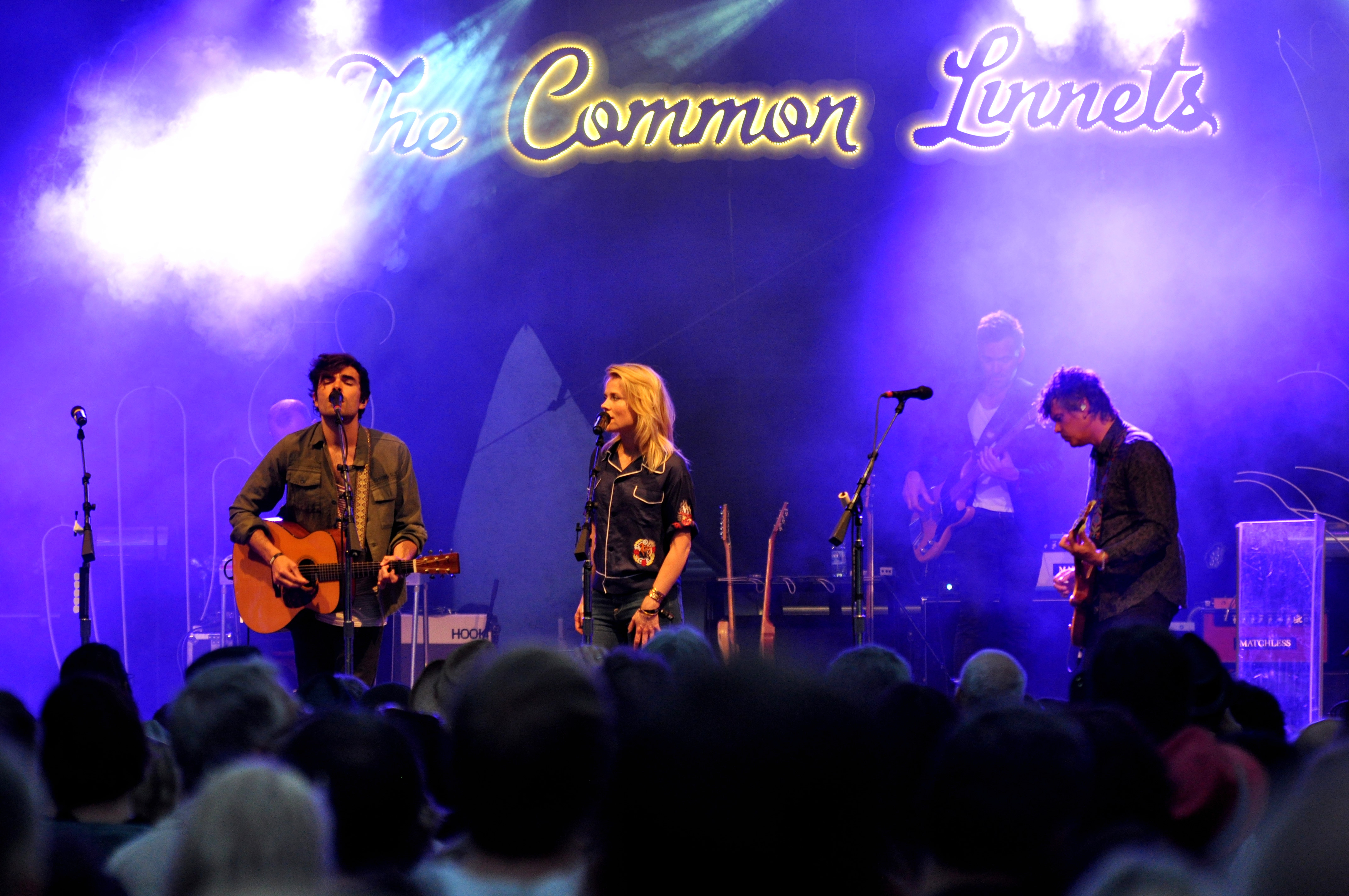 The Common Linnets (NLD/USA) appearance at the 2017 blacksheep festival at Bonfeld castle, Bad Rappenau, Baden-Wuerttemberg, Germany Festivalsommer This photo was created with the support of donations to Wikimedia Deutschland in the context of the CPB project "Festival Summer".